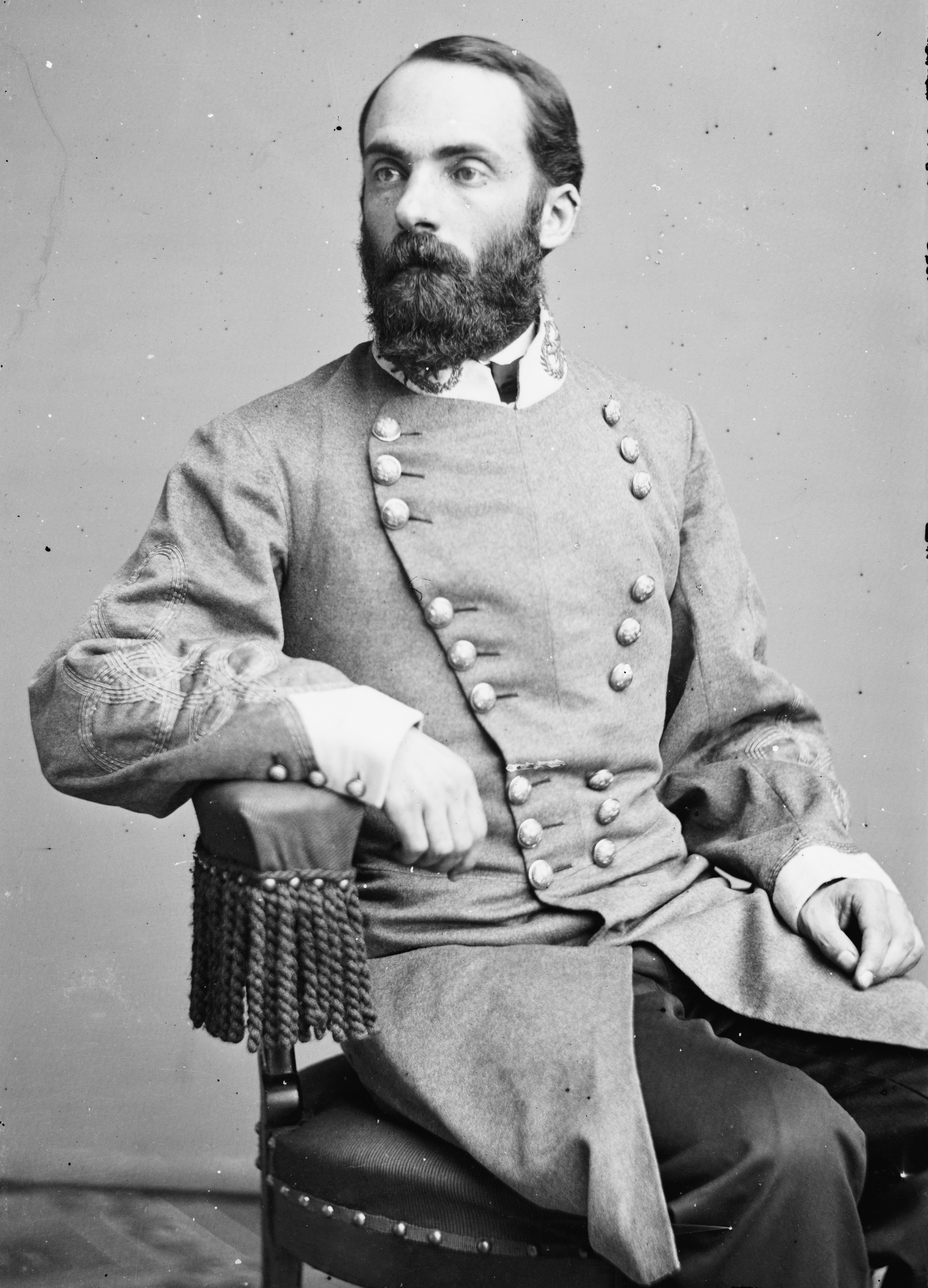 photo of Joseph Wheeler (1836-1906)